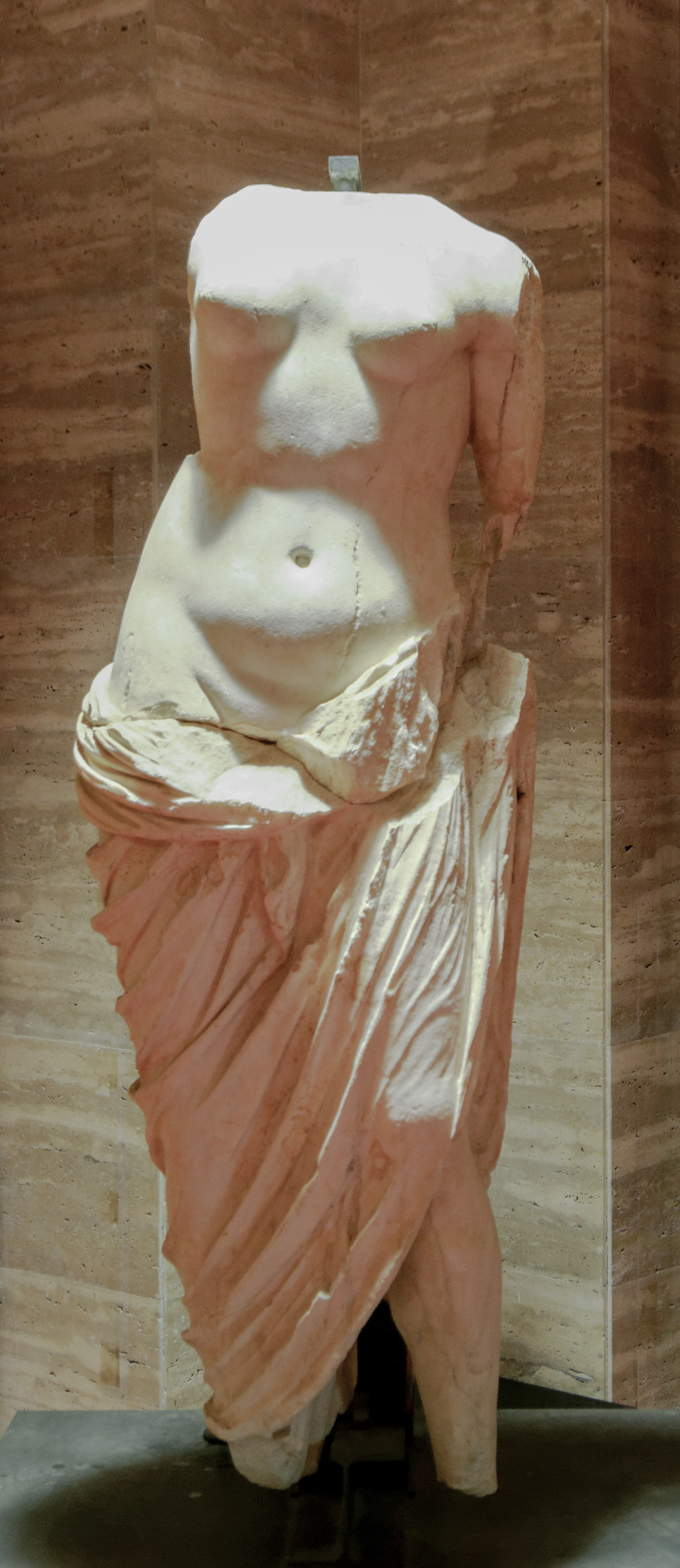 Italy, Paestum, Museum